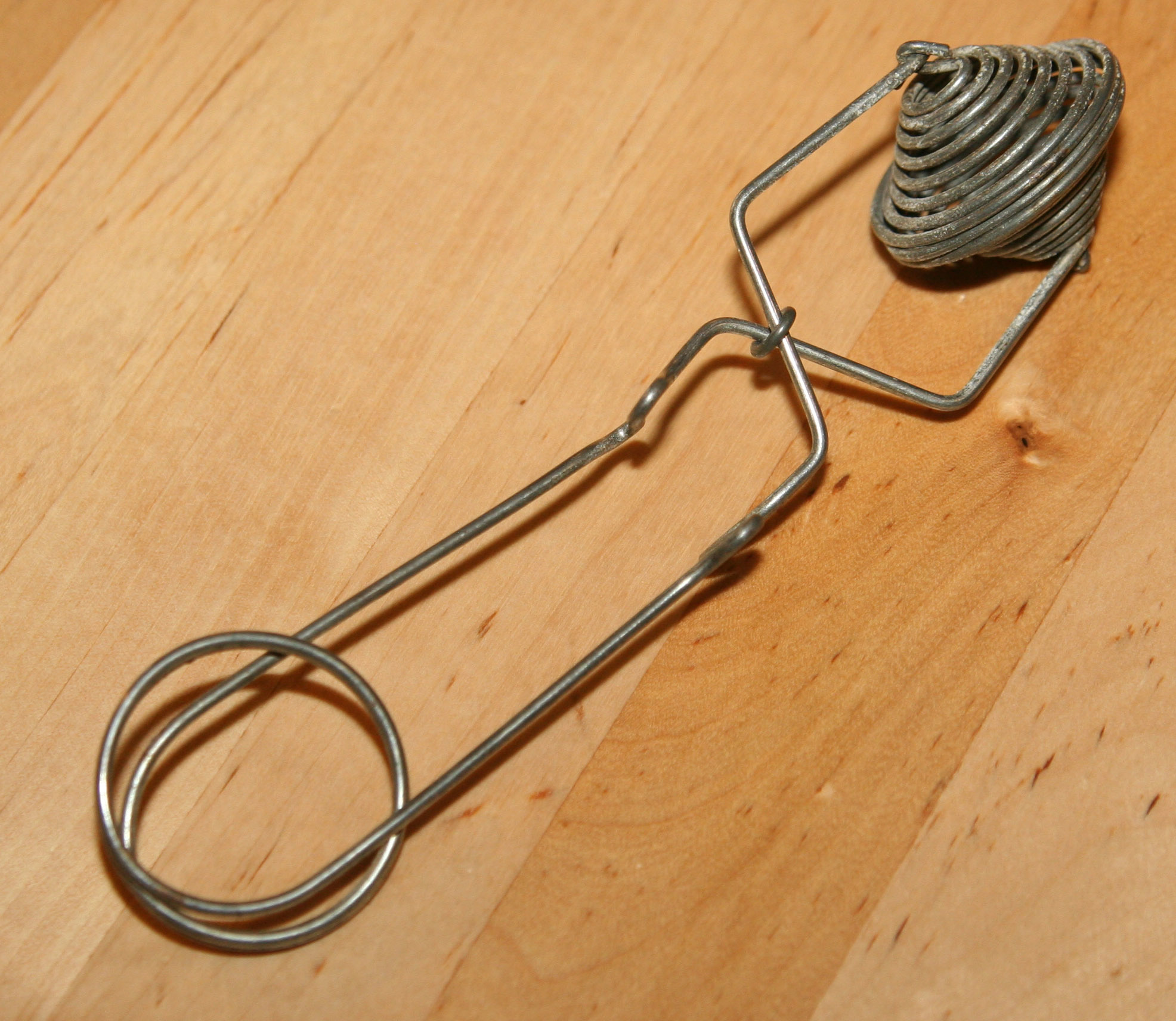 A device for sprinkle flour over e g a sauce.